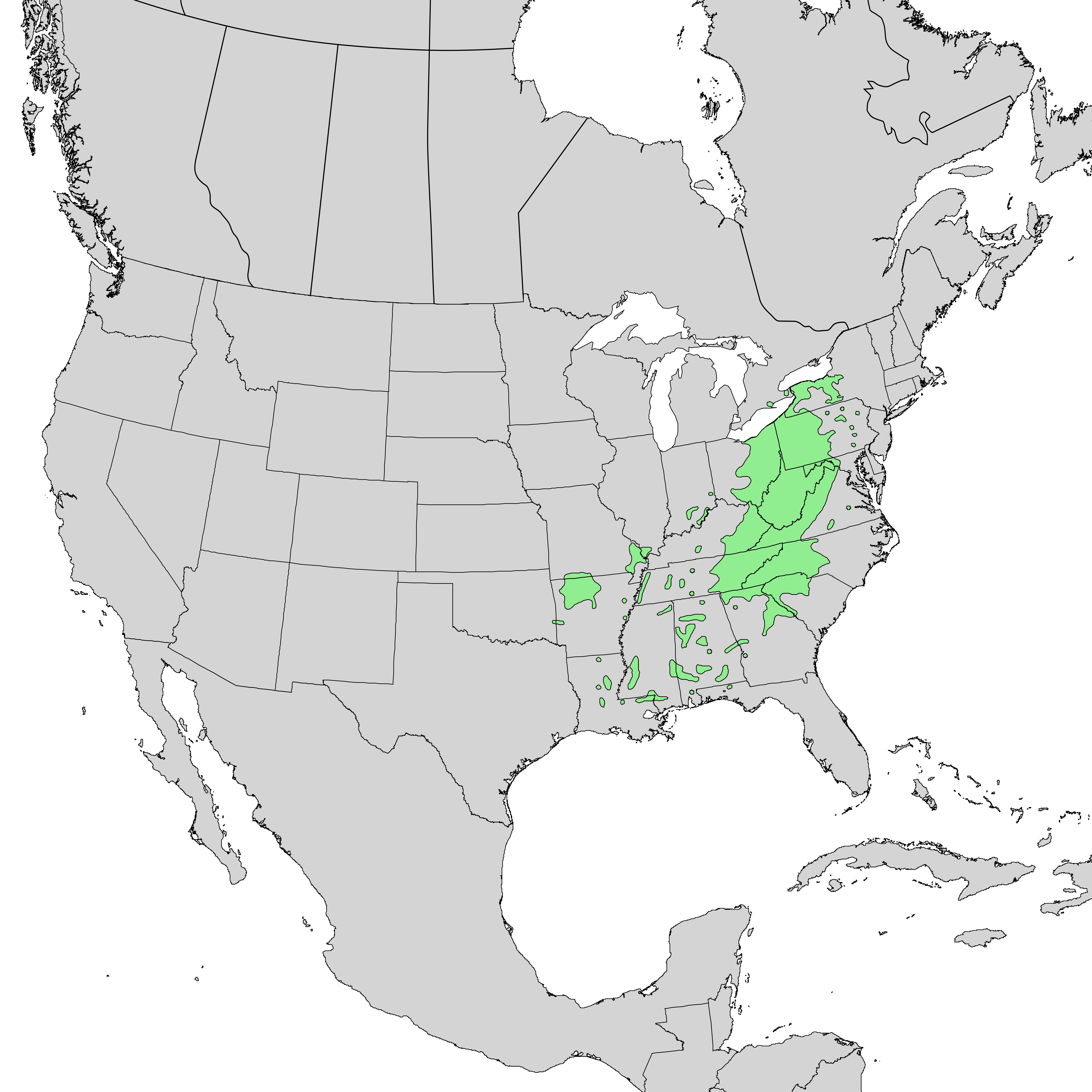 Natural distribution map for Magnolia acuminata (cucumbertree)